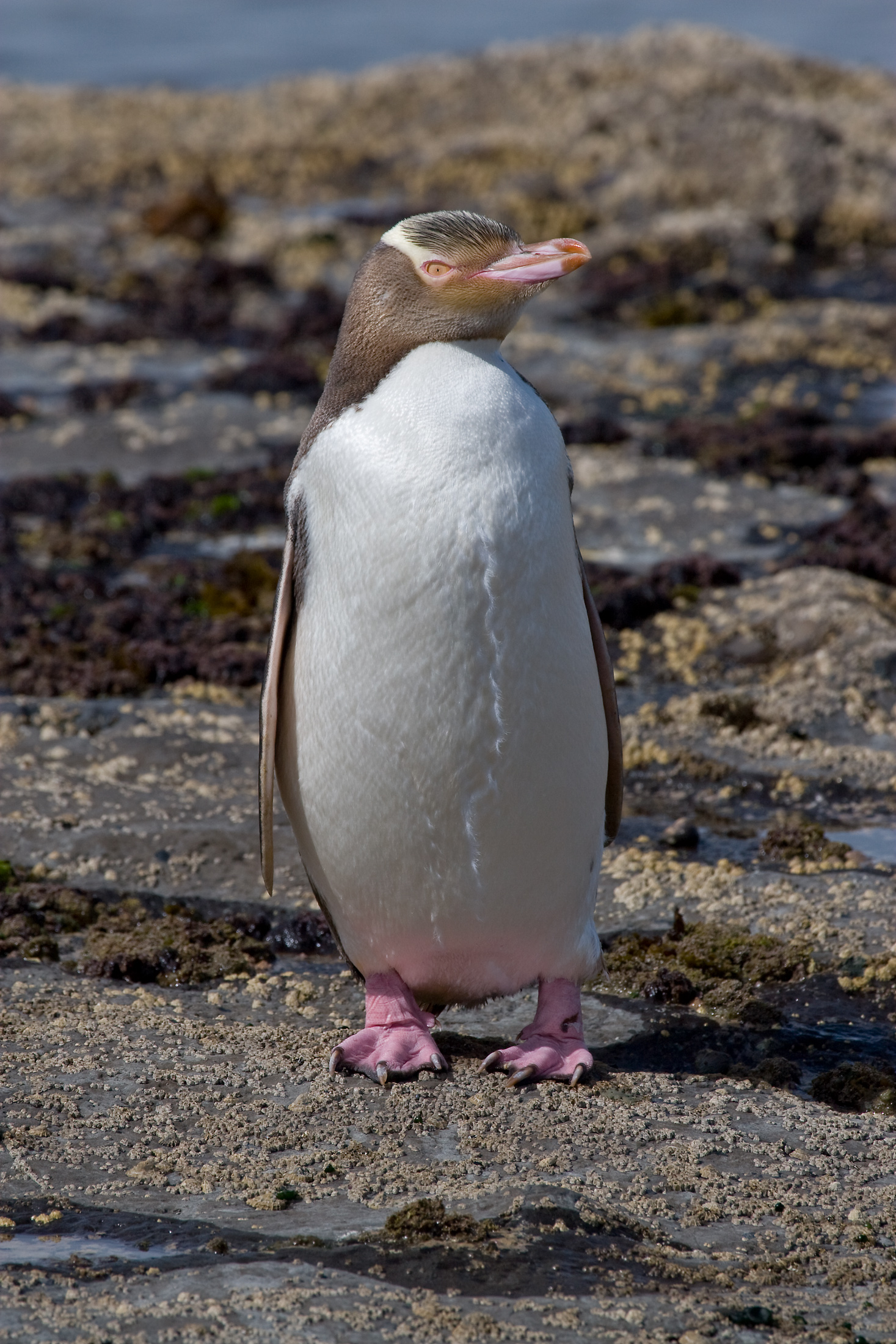 A Yellow-eyed Penguin, Megadyptes antipodes in the Curio Bay, New Zealand.